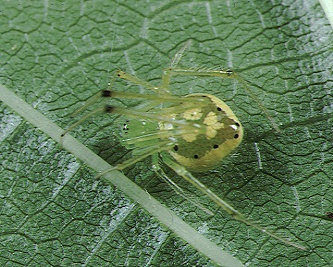 female Chrysso sasakii from Okinawa.